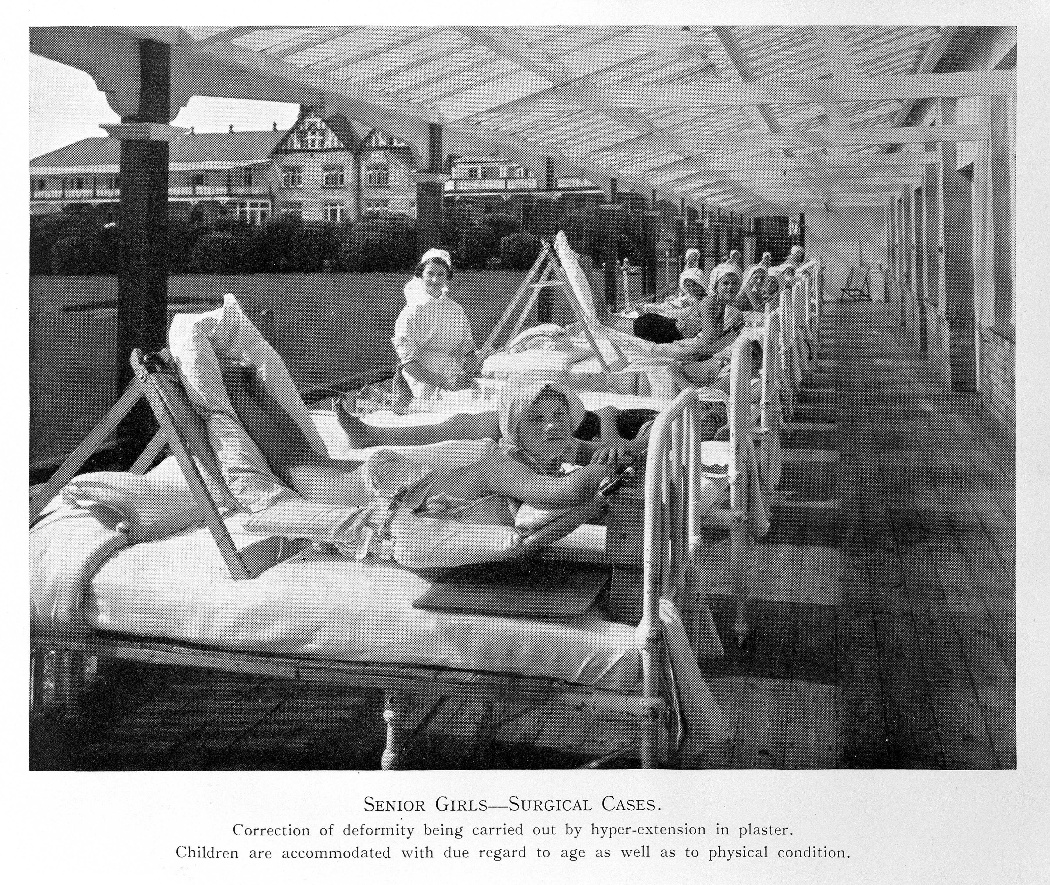 Stannington Sanatorium. The first British sanatorium for tuberculosis children, Morpeth, Northumberland. 'Senior girls - surgical cases' Wellcome Images Keywords: Institutions; Great Britain; Tuberculosis; Hospitals